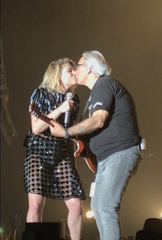 Emma Marrone insieme al padre Rosario Marrone durante l’Essere Qui Tour 2018 tappa Napoli Teatro Palapartenope 28 maggio 2018